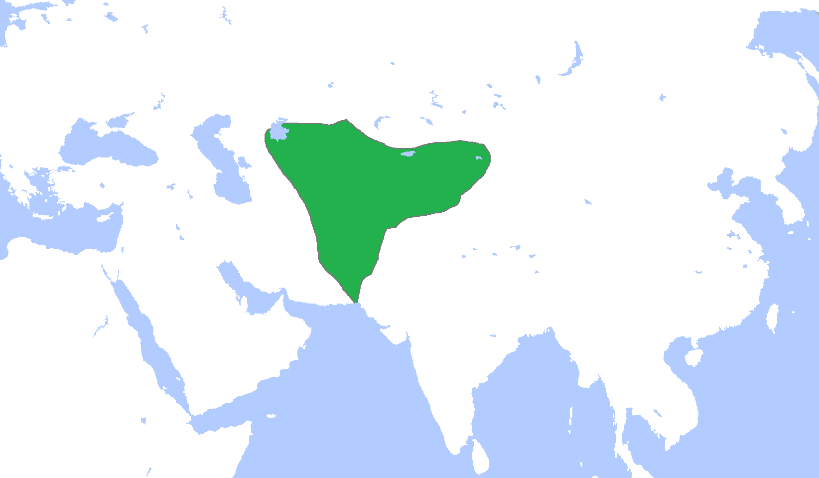 Locator map of the Hephthalite Khanate of the White Huns, c. 500 in Central Asia. (Partially based on Atlas of World History (2007) - The World 250-500, map)